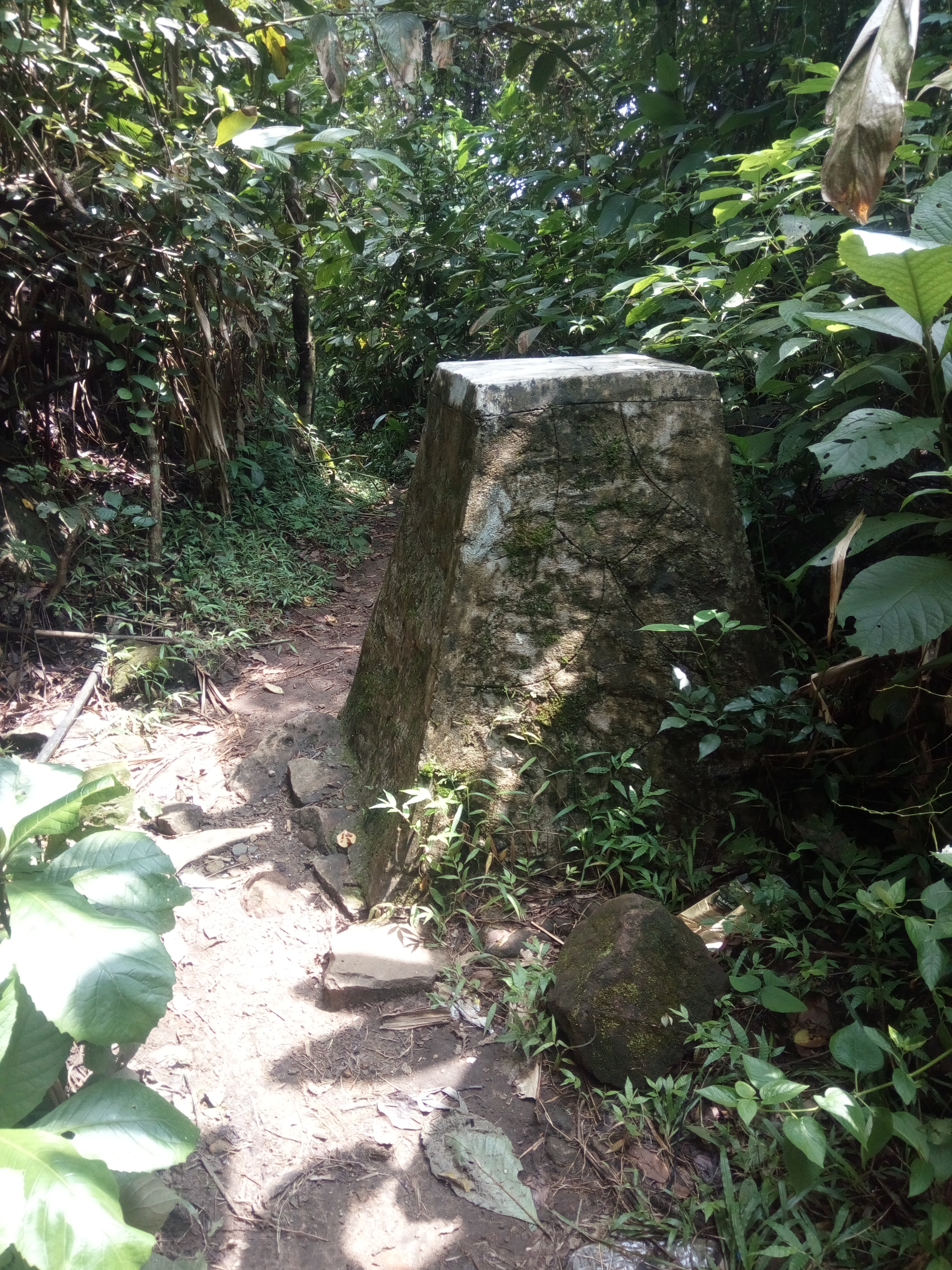 Pazhassi cave is in kakkadampoyil, near nilampur. Malappuram dist. Kerala, India. It is a secret cave used by pazhassi raja. The route to this cave is very narrow through Forest. way from nayadam poyil to pazhassi cave, janda can be seen.